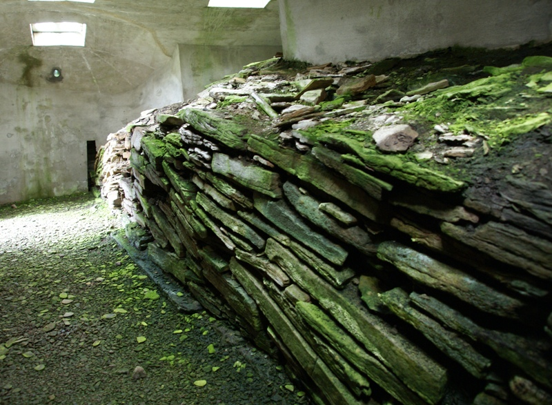 Knowe of Yarso Chambered Cairn, Rousay, Orkney, Scotland - outer face walling